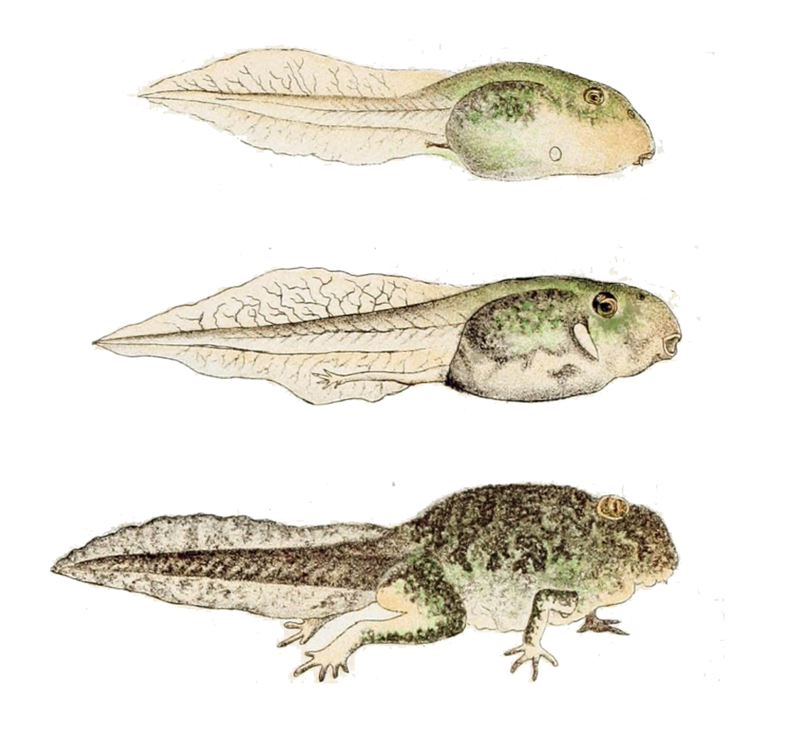 outcut of Litoria aurea development.jpg Litoria aurea development